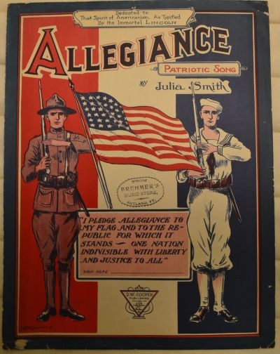 Cover Art